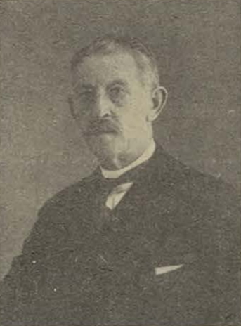 Esteban Barrachina Benages